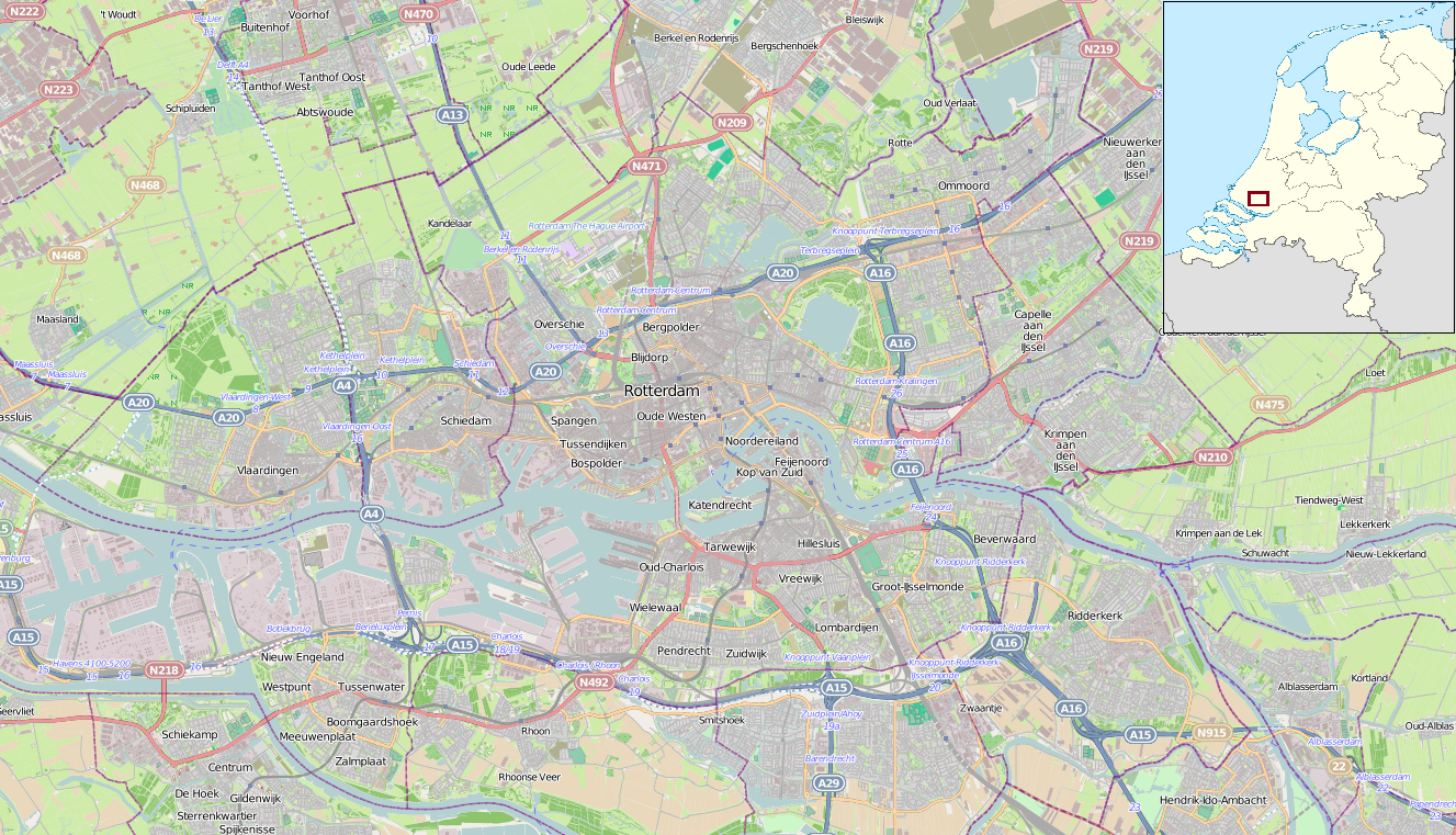 Map of Rotterdam Geographic limits of the map: N: 51.998° S: 51.837° W: 4.256° E: 4.712°